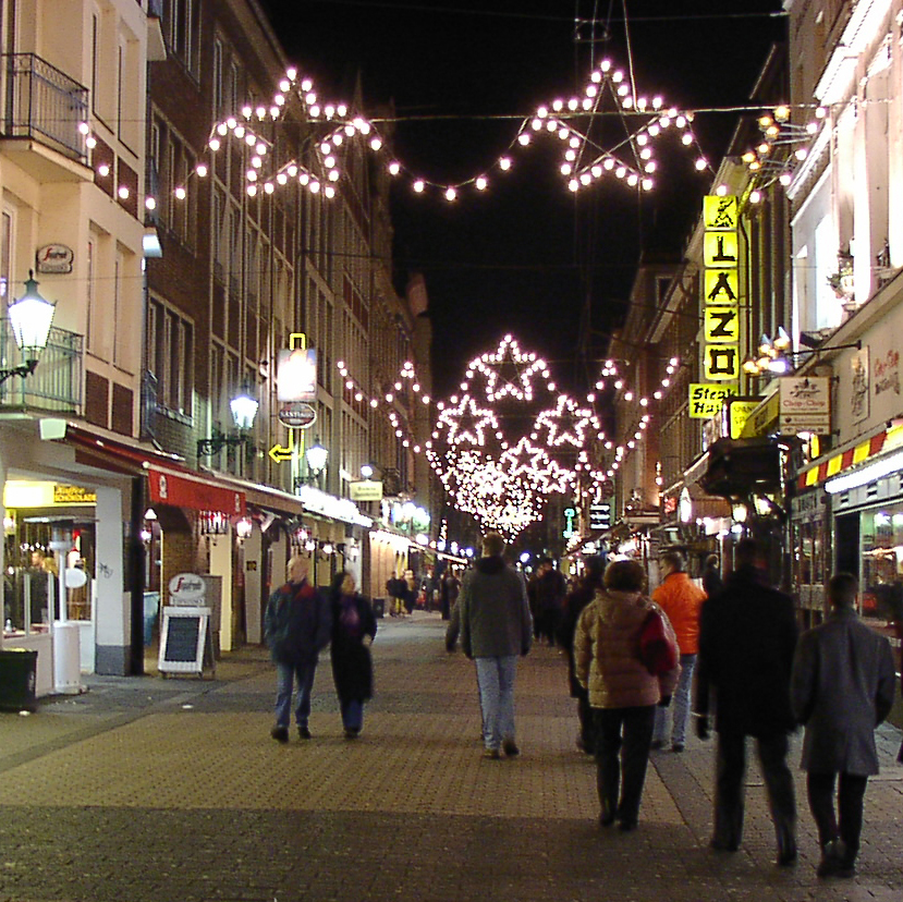 Photographer: Rainer Driesen Date: 23.12.2001 Exposure data: JPEG file contains EXIF Data